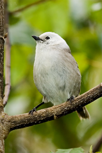 Whitehead, Mohoua albicilla, endemic to New Zealand.